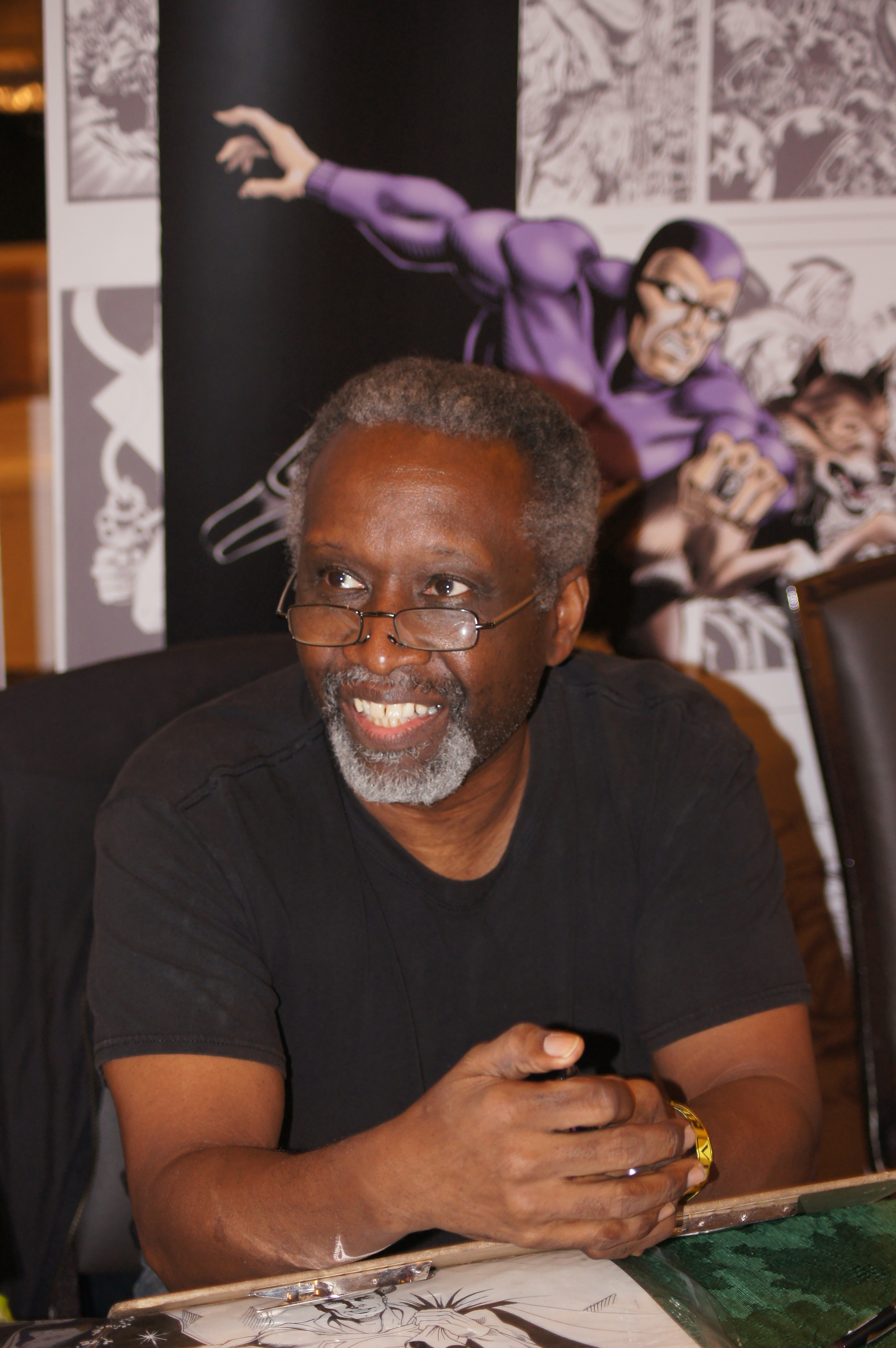 Mid Atlantic Nostalgia conv Hunt Valley M.D. Sept 2019